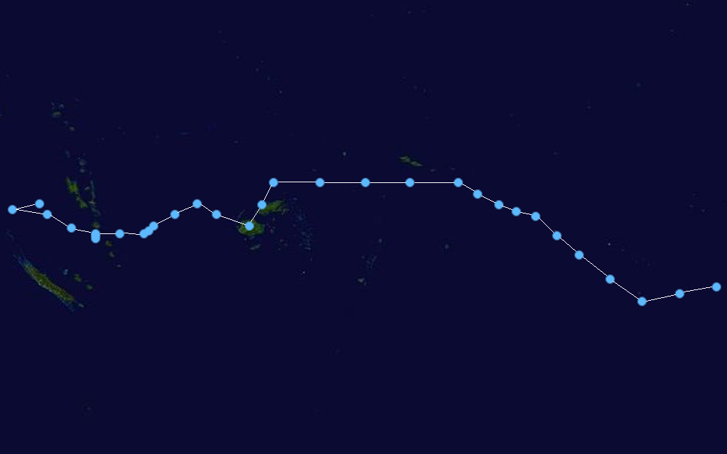 Tropical Depression 03F (2007) track map. Saffir-Simpson Hurricane Scale TD TS 1 2 3 4 5